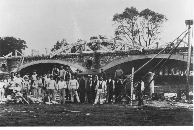 Construction of the Bridge over Wuemme River for the Bremen - Tarmstedt railroad called "Jan Reiners"